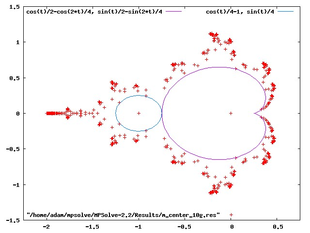 This file shows centers of hyperbolic components of Mandelbrot set Fc(z)=z*z+c for period 10 ( and its divisors). It is made with gnuplot. Centers are computed with MPSolve.